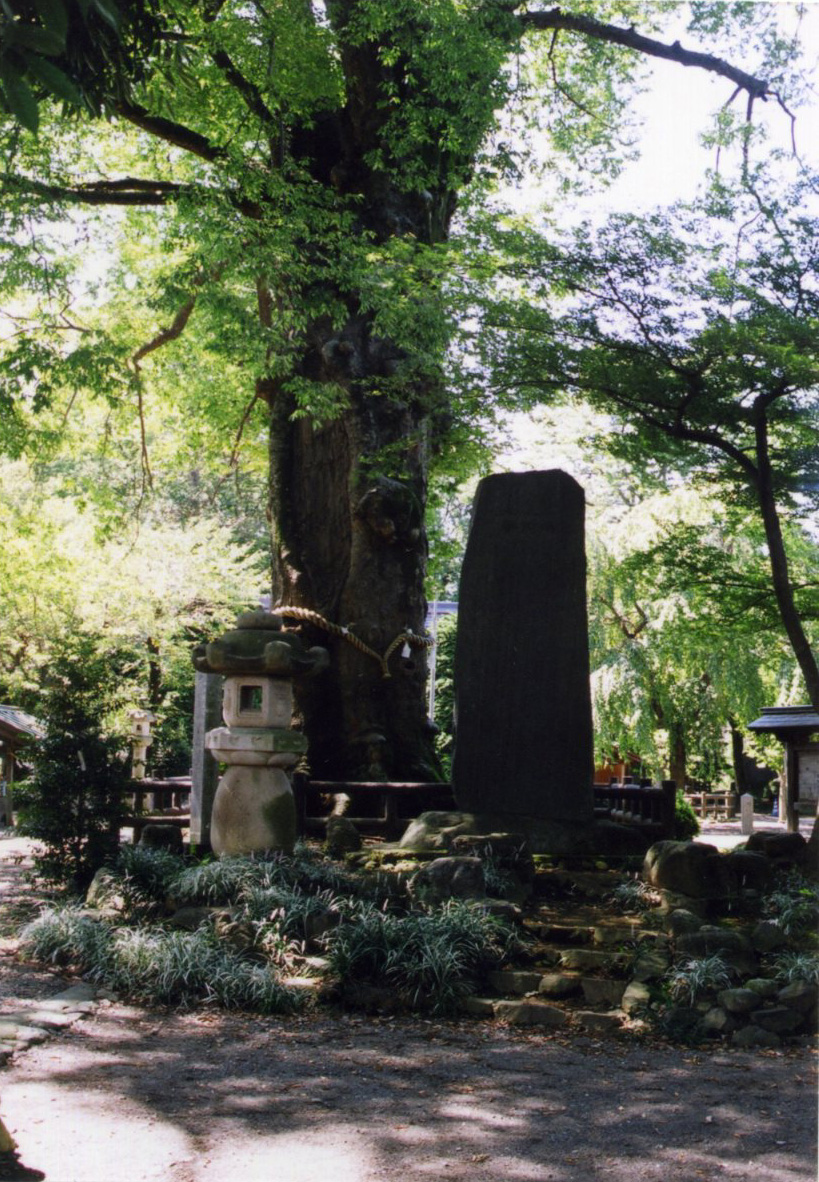 The big zelkova tree and the monument eulogy of Sotoku Shimizu at Hirose jinja shrine(Hirose,Sayama-shi,SAITAMA,Japan)